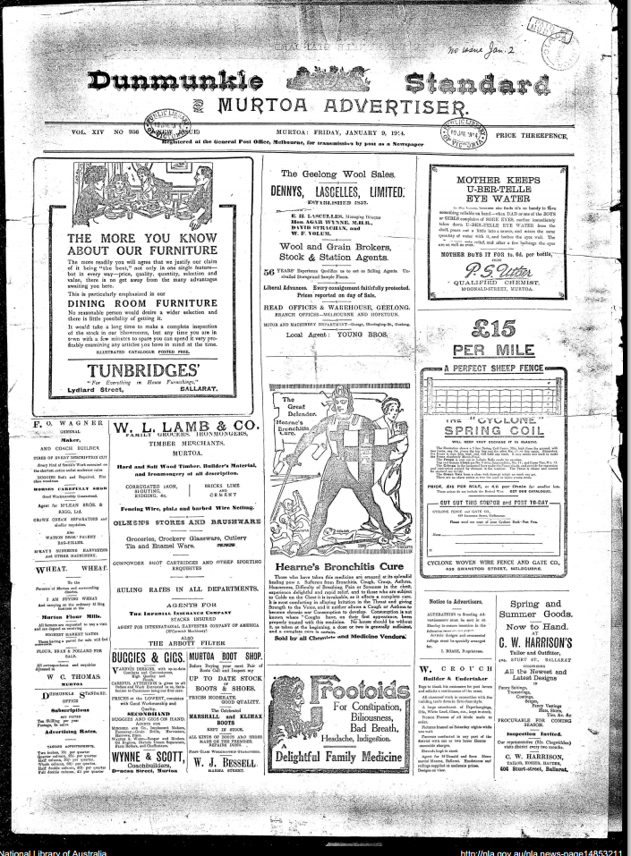 Front page of the Dunmunkle Standard 9 January 1914